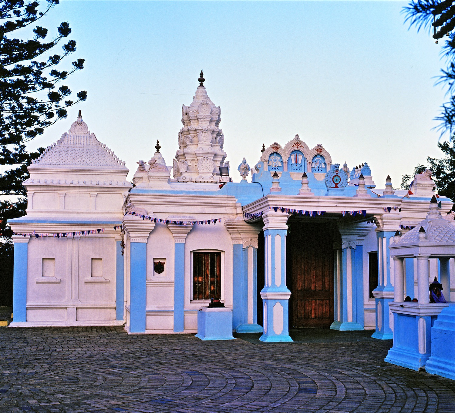 This media shows a South African Protected Site with SAHRA file reference 9/2/412/0009.